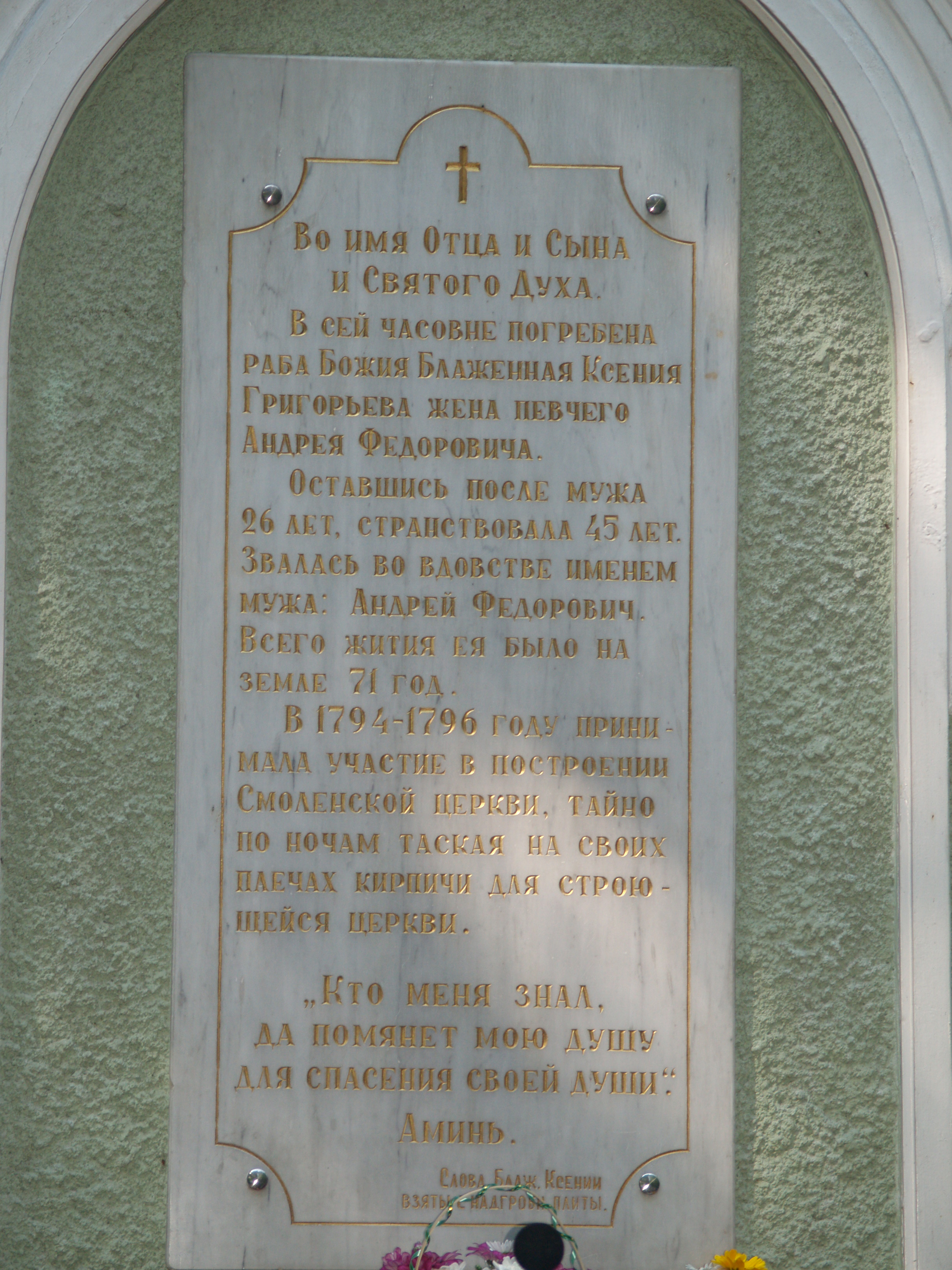 St.Xenia Chapel sign at Smolensk Cemetery, St.Petersburg, Russia